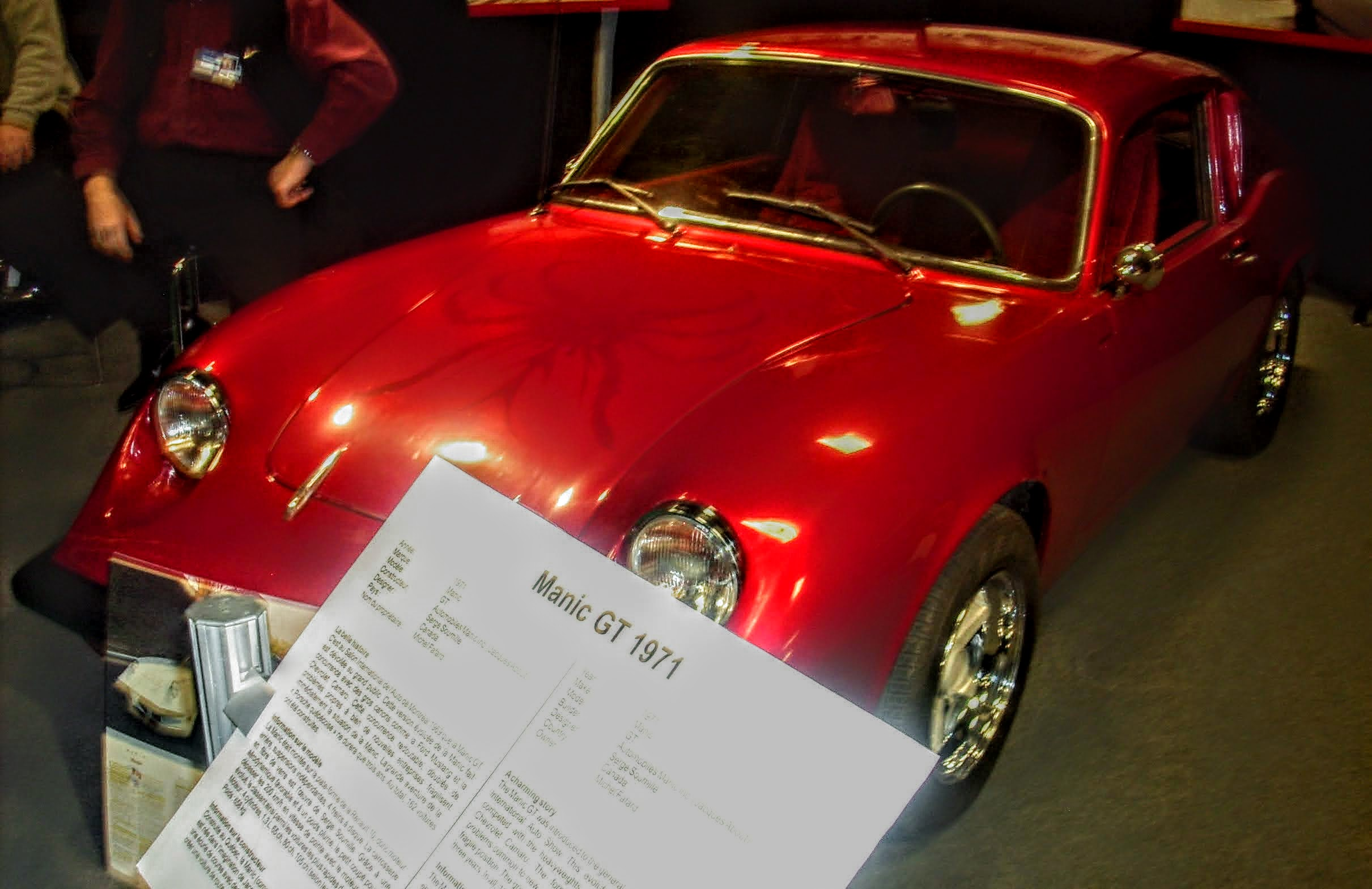 1971 Manic GT photographed in Montreal, Quebec, Canada at the 2010 Montreal International Auto Show.